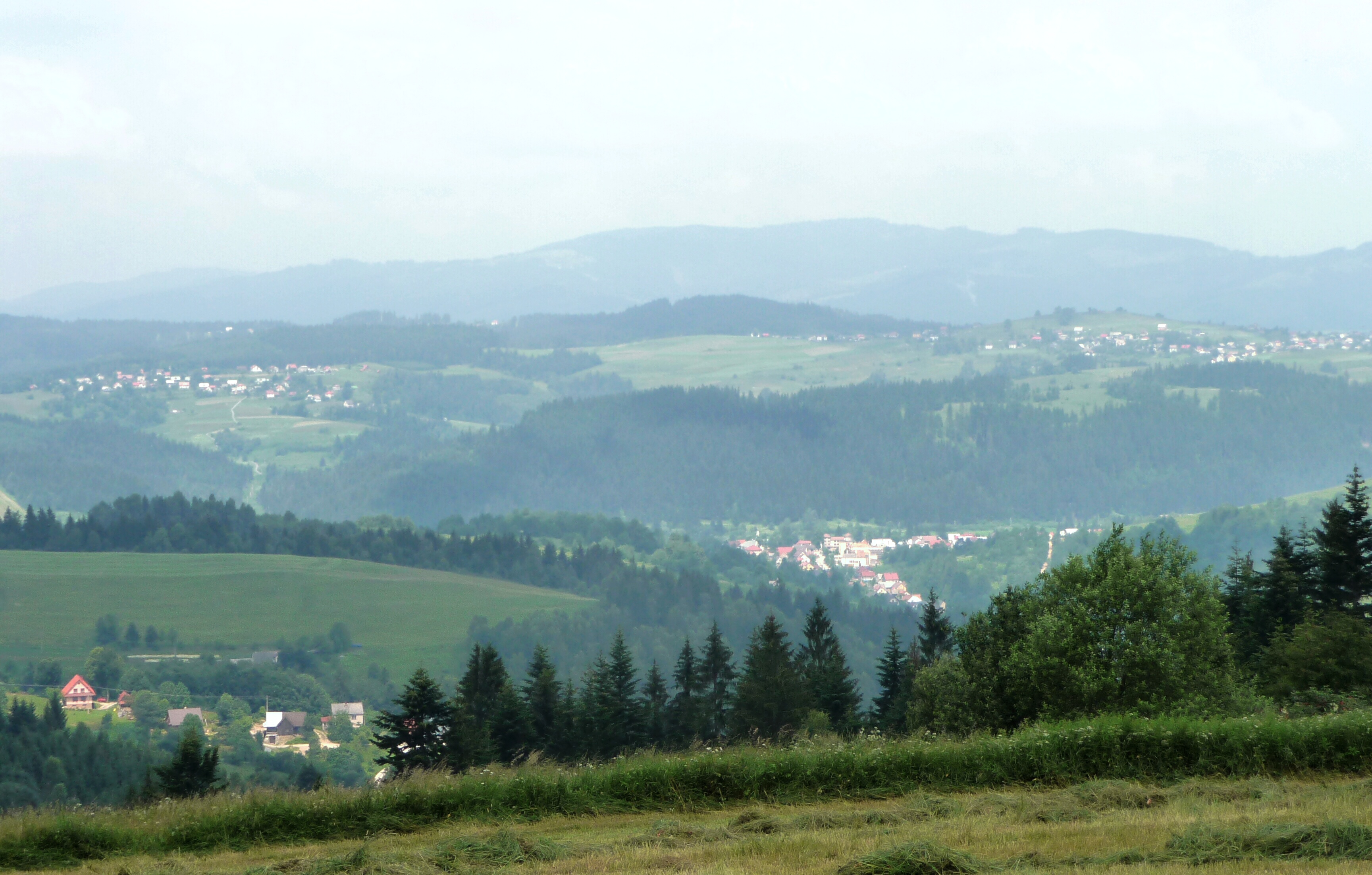 View on Hrčava (Czech Republic, left on the hill), Čierne pri Čadci (Slovakia, down in the valley) and Jaworzynka (Poland, right on the hill).